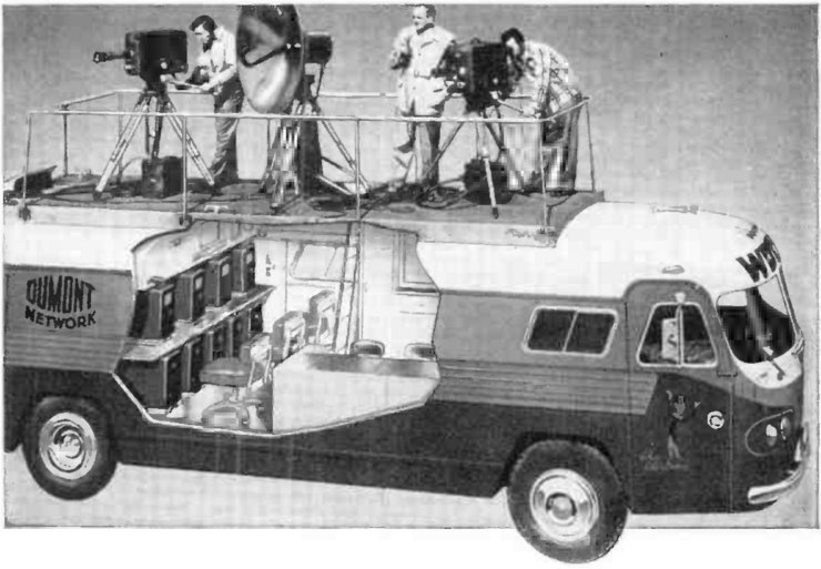 One of the first remote TV production trucks, the DuMont Telecruiser, built by DuMont Television Network in 1949. It is shown in this 1953 advertising illustration during broadcast, with side cut away to reveal the interior construction. The roof platform, accessible from inside through a hatch, allowed the large cameras to see over crowds (handheld cameras did not exist yet). The video feed was transmitted back to the studio through the microwave dish on the roof (communication satellites did not exist). Alterations to image: cloned in some ground in front of the vehicle which was removed in the advertisement. The crosshatched lines in background are aliasing artifacts from scanning of halftone image.